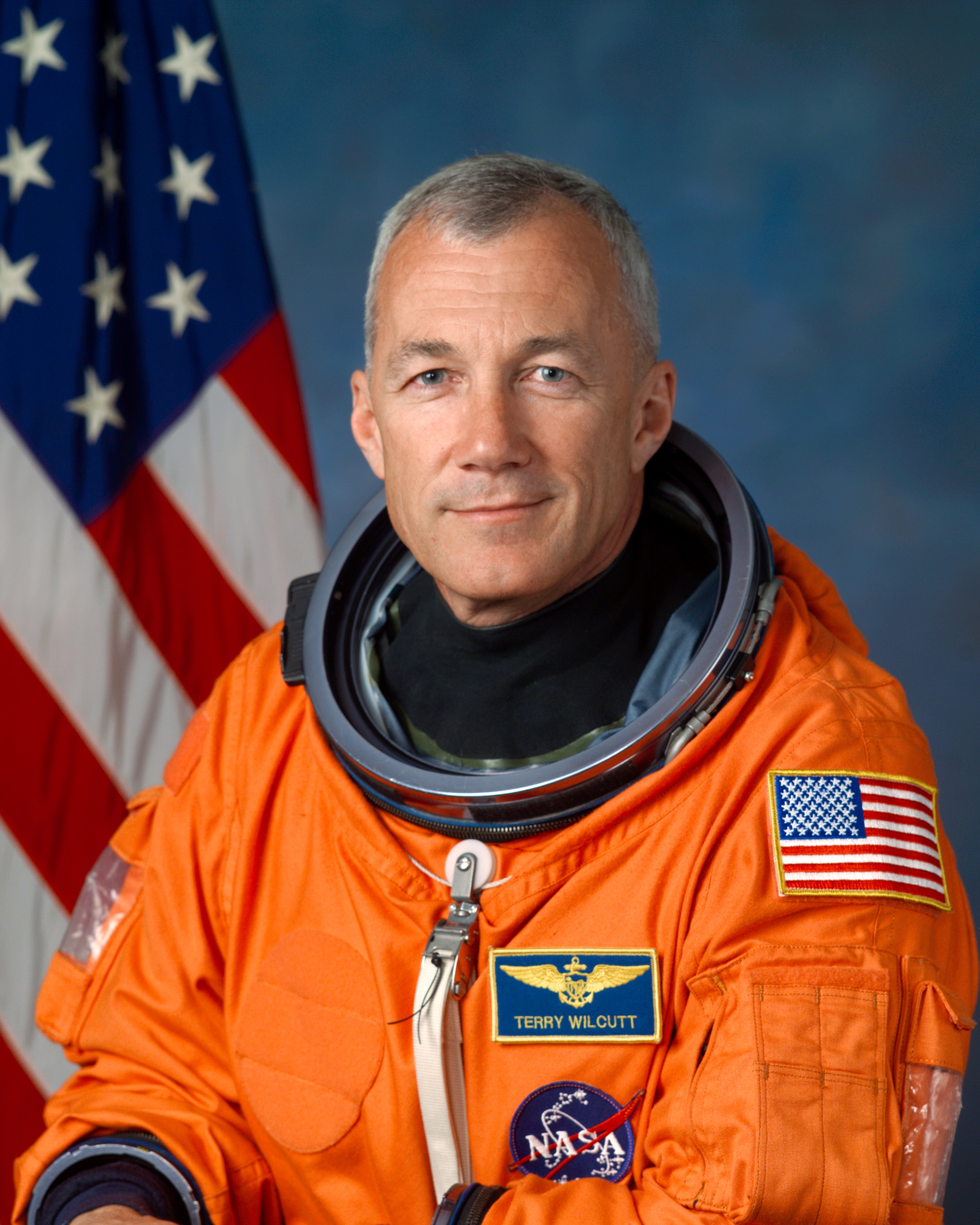 fficial portrait of astronaut Terrence W. Wilcutt